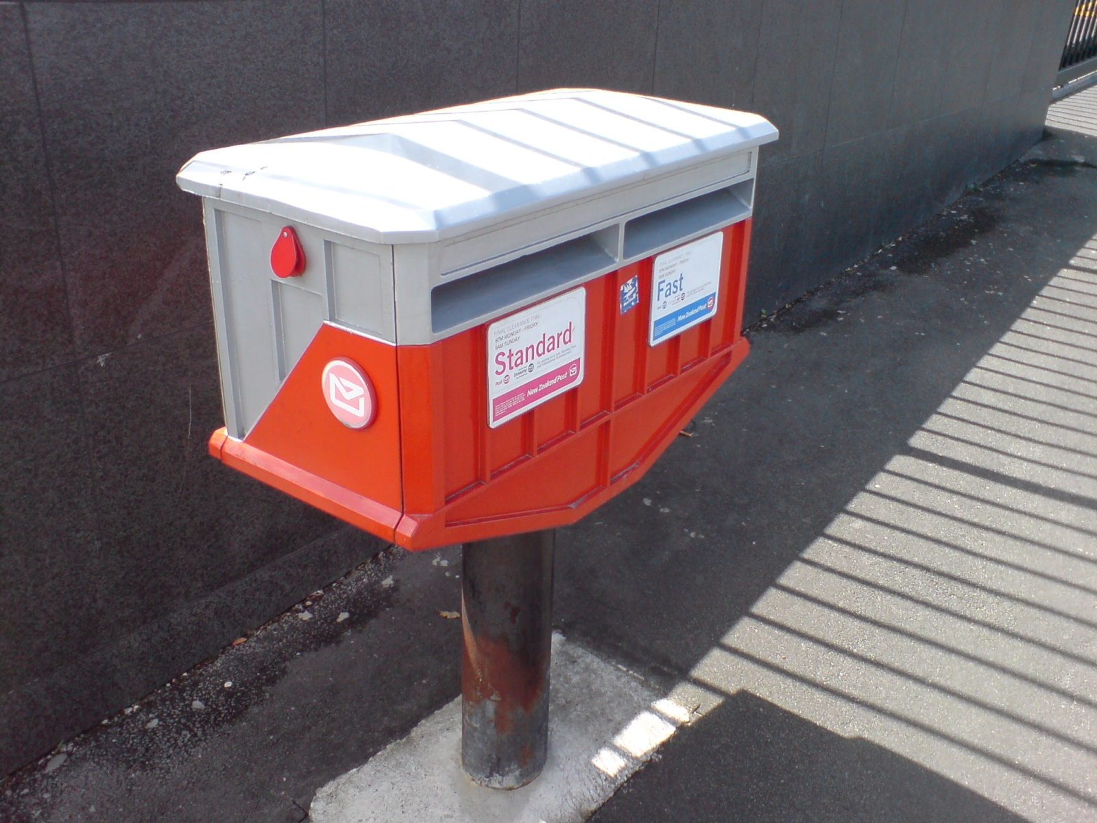 An odd-shaped mailbox (New Zealand Post) in Auckland City, New Zealand.